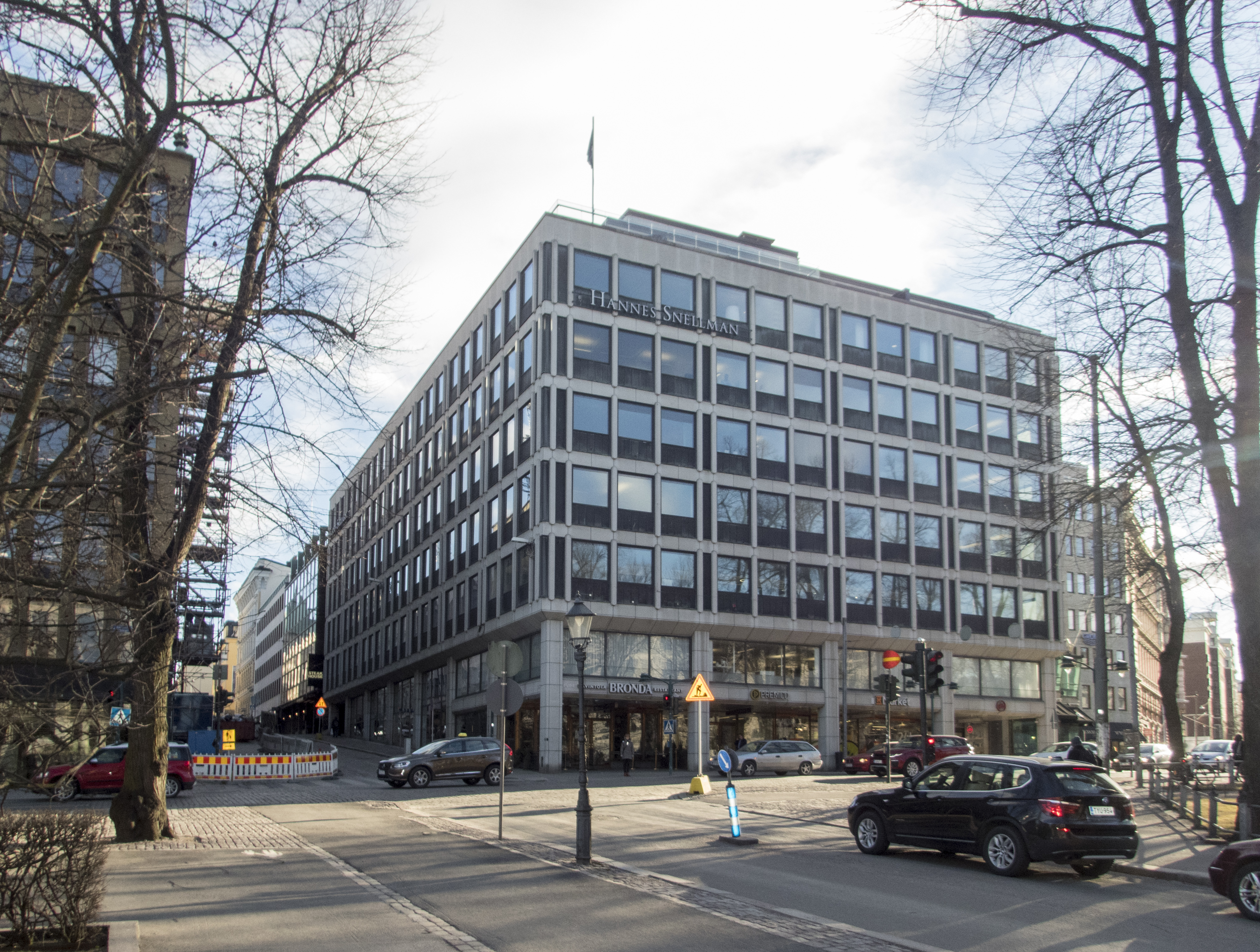 Korkeavuorenkatu 36 - Eteläesplanadi 20, Helsinki. Architect Keijo Petäjä. Built in 1975